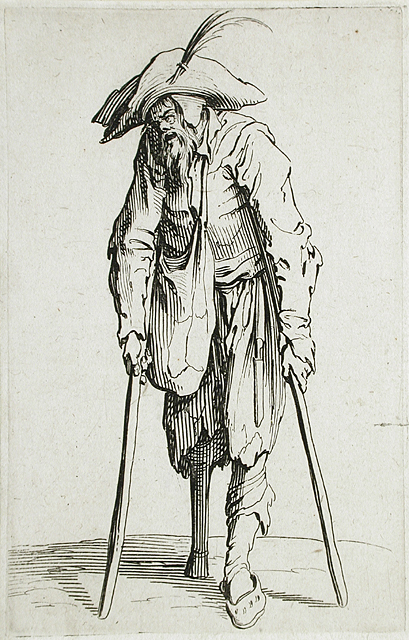 France, circa 1621 Prints; etchings Etchings Various measurements Anonymous gift (M.89.67a-y) Prints and Drawings